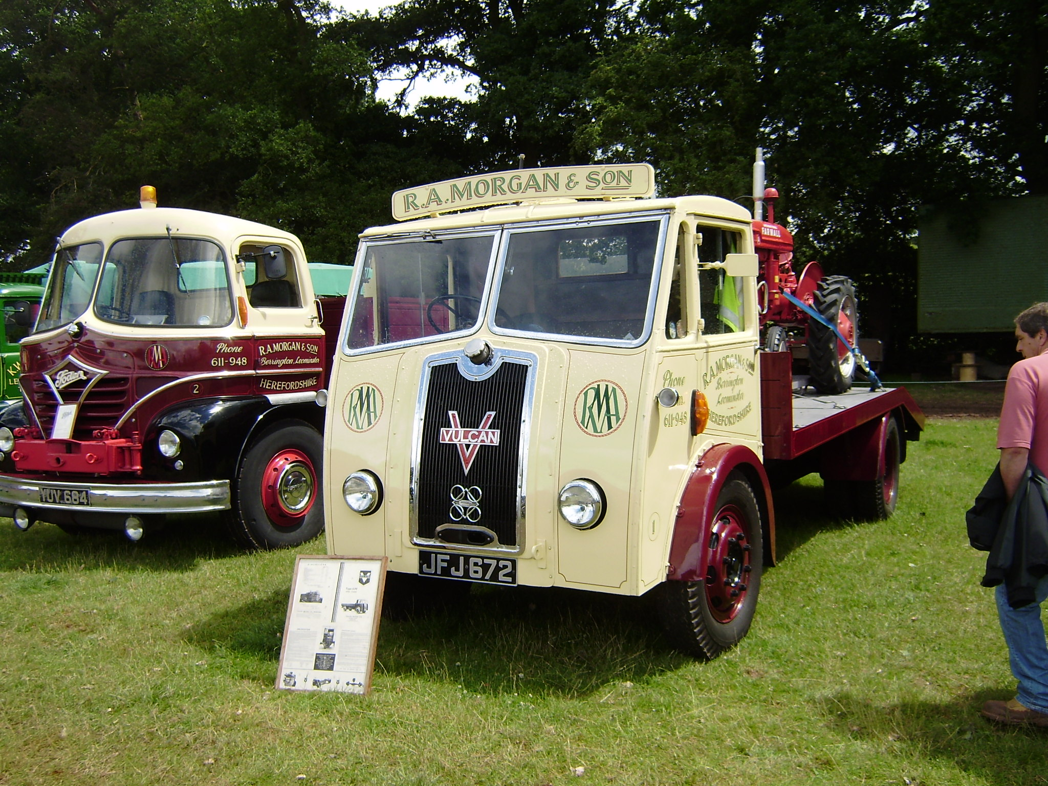 Vulcan lorry at Bromyard show 2008 in England.